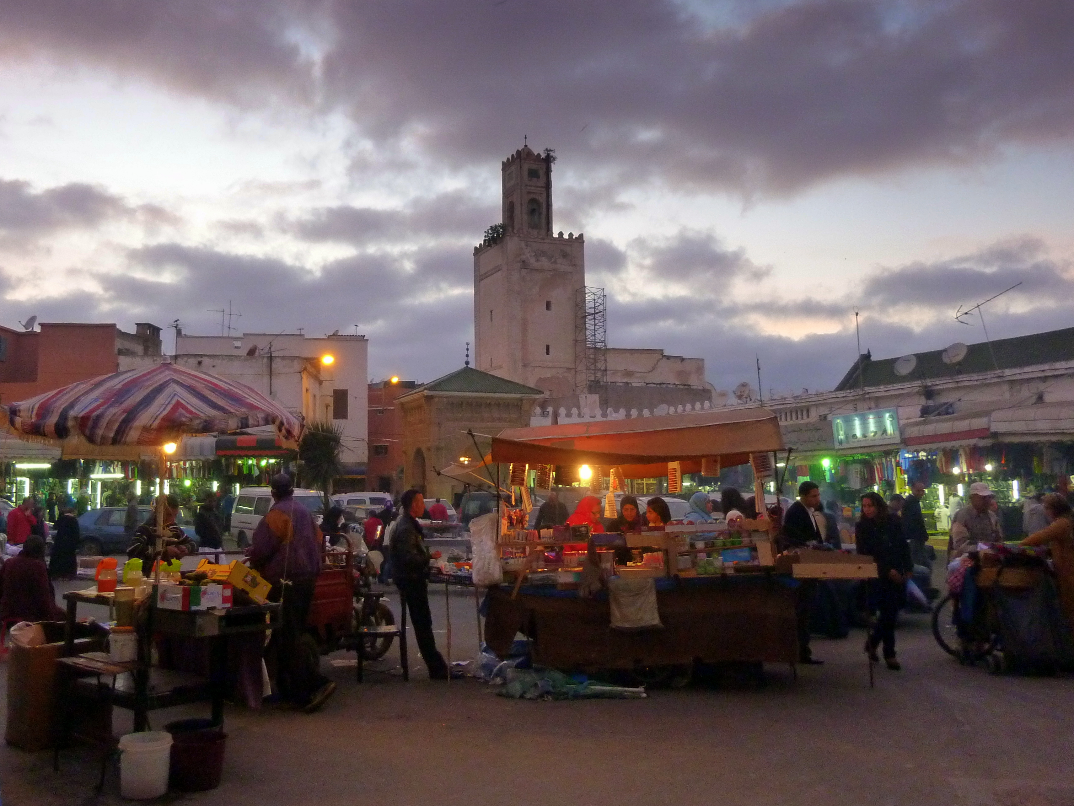 Market in Mazagan